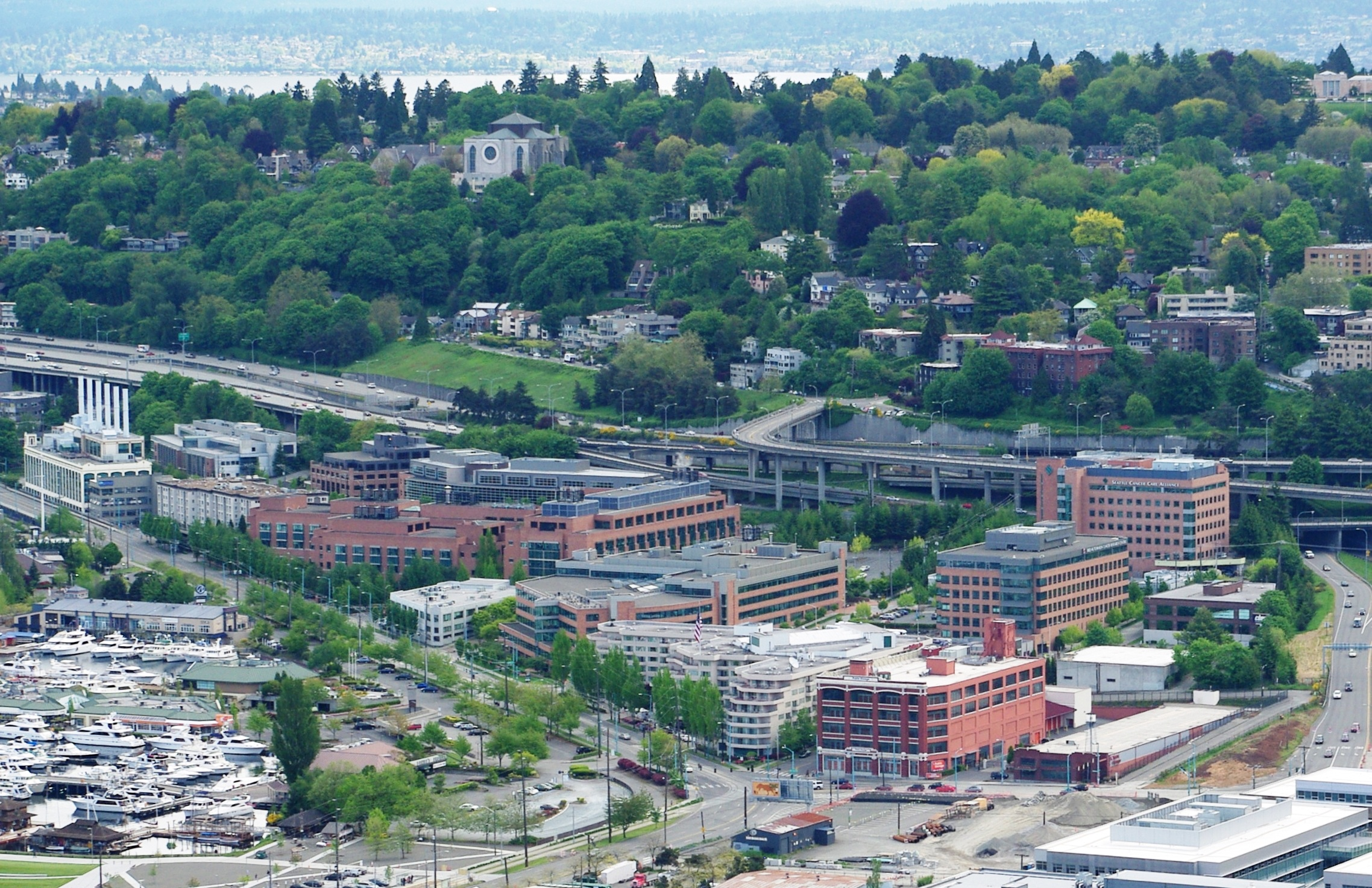 Fred Hutchinson Cancer Research Center as viewed from the west.